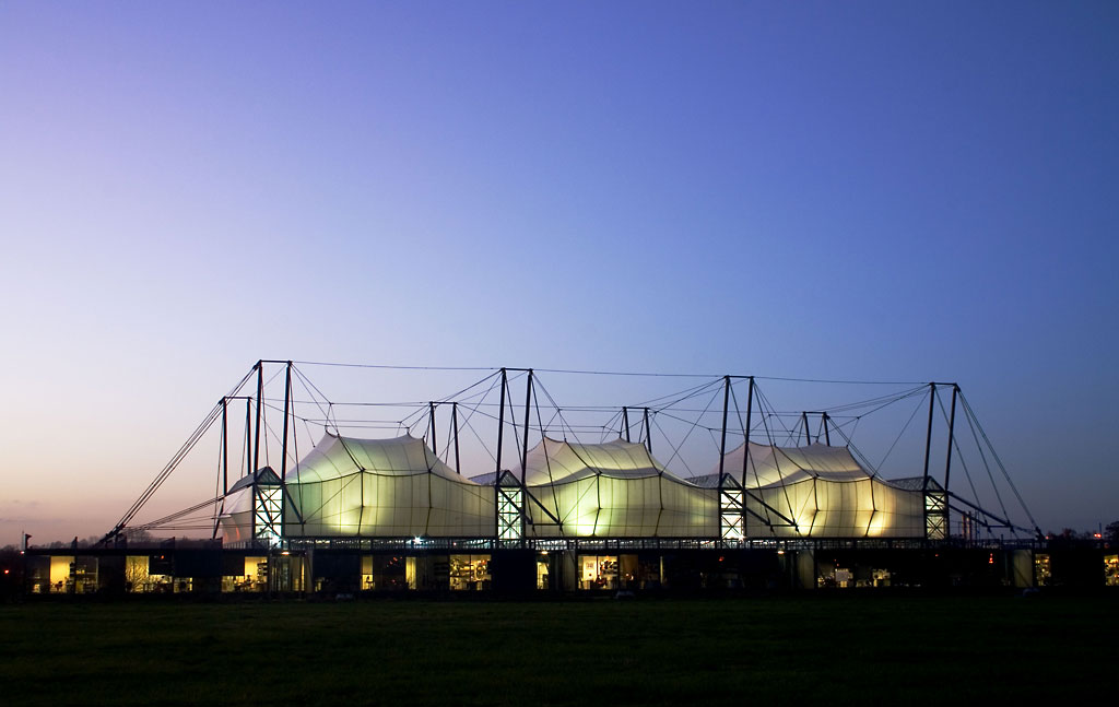 Schlumberger Cambridge Research Centre. The second of Schlumberger Oilfield Services research centres is based in Cambridge, England. The building was designed by Michael Hopkins and Partners in 1985 and centred around a drilling rig test station covered by a suspended PTFE coated glass fibre membrane roof. The central span of the building is 27 metres wide and flanked by two rows of glass walled research offices. In 1992 the building was extended to the south with a neighbouring two story block of offices also designed by Michael Hopkins and Partners. Keywords: Michael Hopkins and Partners, Schlumberger Research, High-tech architecture, Cambridge